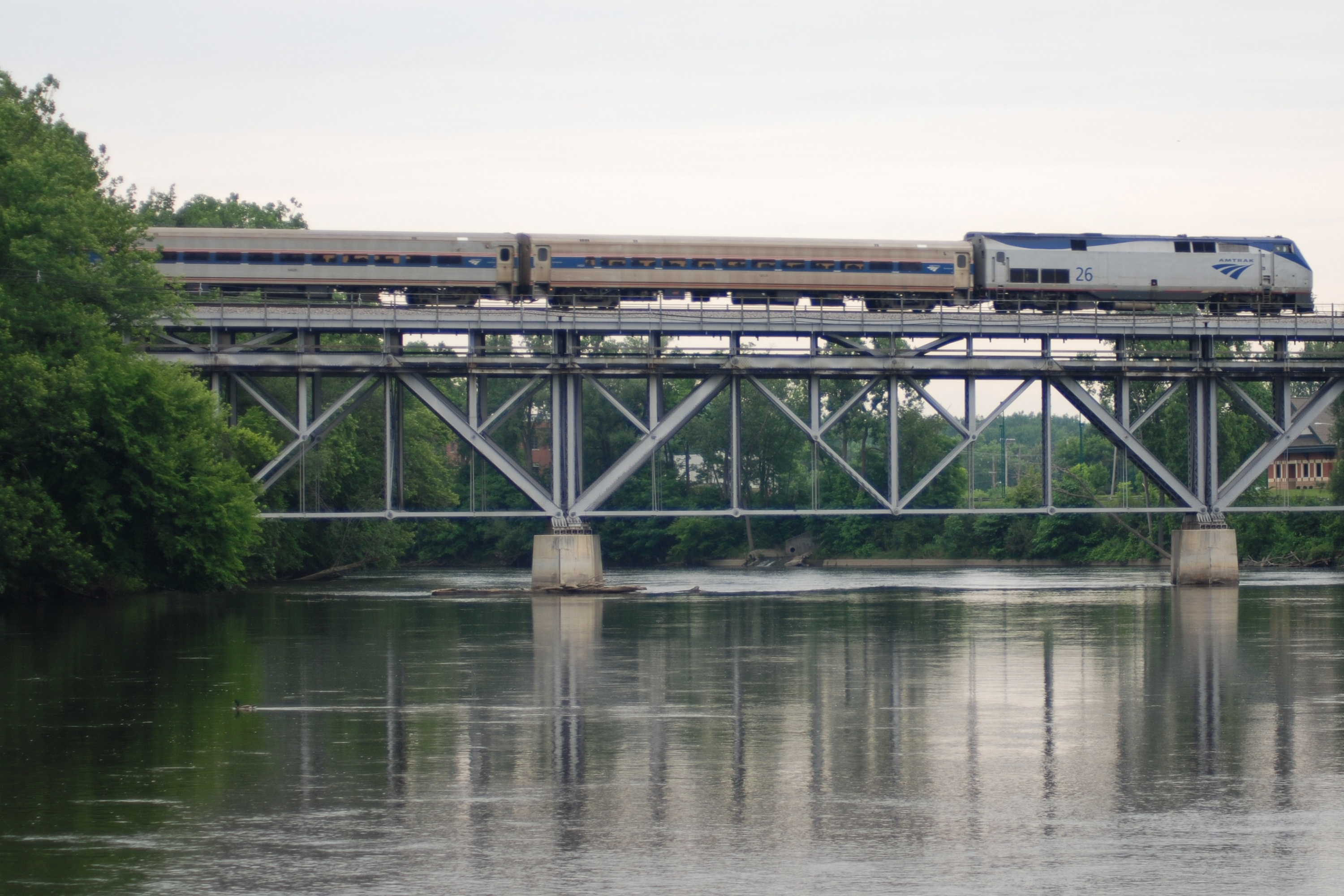 Amtrak GE P42DC No. 26 crossing the St. Joseph River in Niles, Michigan, in 2009. The train is one of three daily Wolverines.